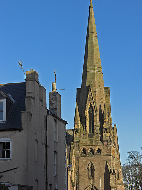 Spire of St Andrew's church (Church of Scotland), Wallace Green, Berwick-upon-Tweed, Northumberland, seen from the west from Walkergate